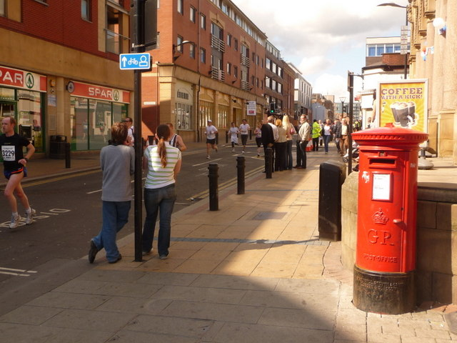 Sheffield: postbox № S1 40, Division Street This George V-reign postbox is emptied finally at 6:30pm on weekdays and at 10:30am on Saturdays. Today, the Sheffield Half Marathon is coming down Division Street back into the city centre.